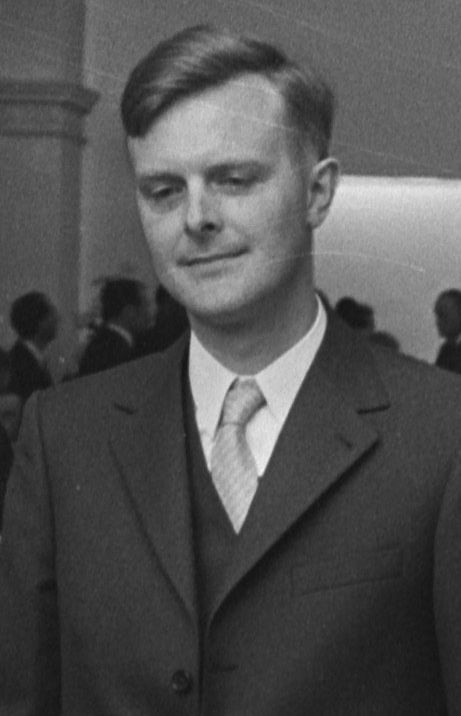 Dr, J. Amesz, 1970